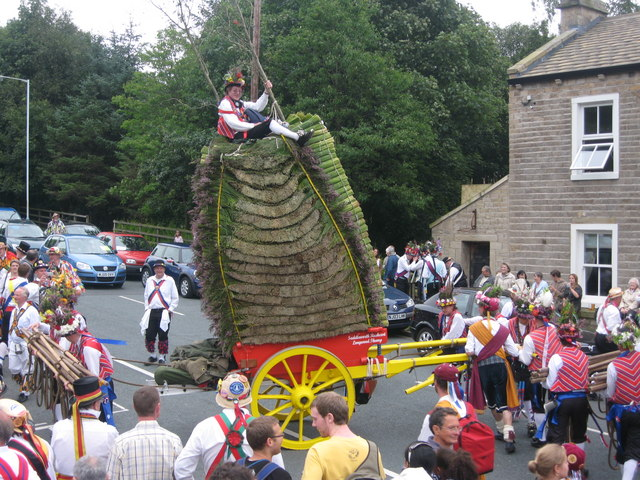 The Saddleworth Rushcart 2008 Seen here during the annual Rushcart Festival in 2008 the morris men prepare to park the rushcart at the Navigation public house on Huddersfield Road in Dobcross. Saddleworth Morris Men revived the Rushcart as an annual festival in 1975 to become the first of many in the area. The rushes are taken from the surrounding moors (with the blessing of the National Trust) and built onto a two-wheeled cart in a slightly conical shape thirteen feet high weighing about two tons (if it doesn't rain). 'Feathers' at each corner are formed from bolts or bundles of rushes each about four inches in diameter held in place by metal rods. The bulk of the cart, which can be seen on the left in the picture, is built from loose rushes; they are not tied on. When completed, the whole structure is trimmed to give a smooth appearance on each side. Two Rowan branches are fixed to the top and, on Saturday morning, the front is dressed with a decorated banner. A man chosen from the ranks of Saddleworth Morris Men sits astride the Rushcart for the day, supplied with ale in a copper kettle on the end of a rope. The Rushcart is then pulled through the Saddleworth villages of Delph, Dobcross and Diggle by approximately 150 morris men invited from all over Britain and overseas. 933955 933931 933845 933889 934377